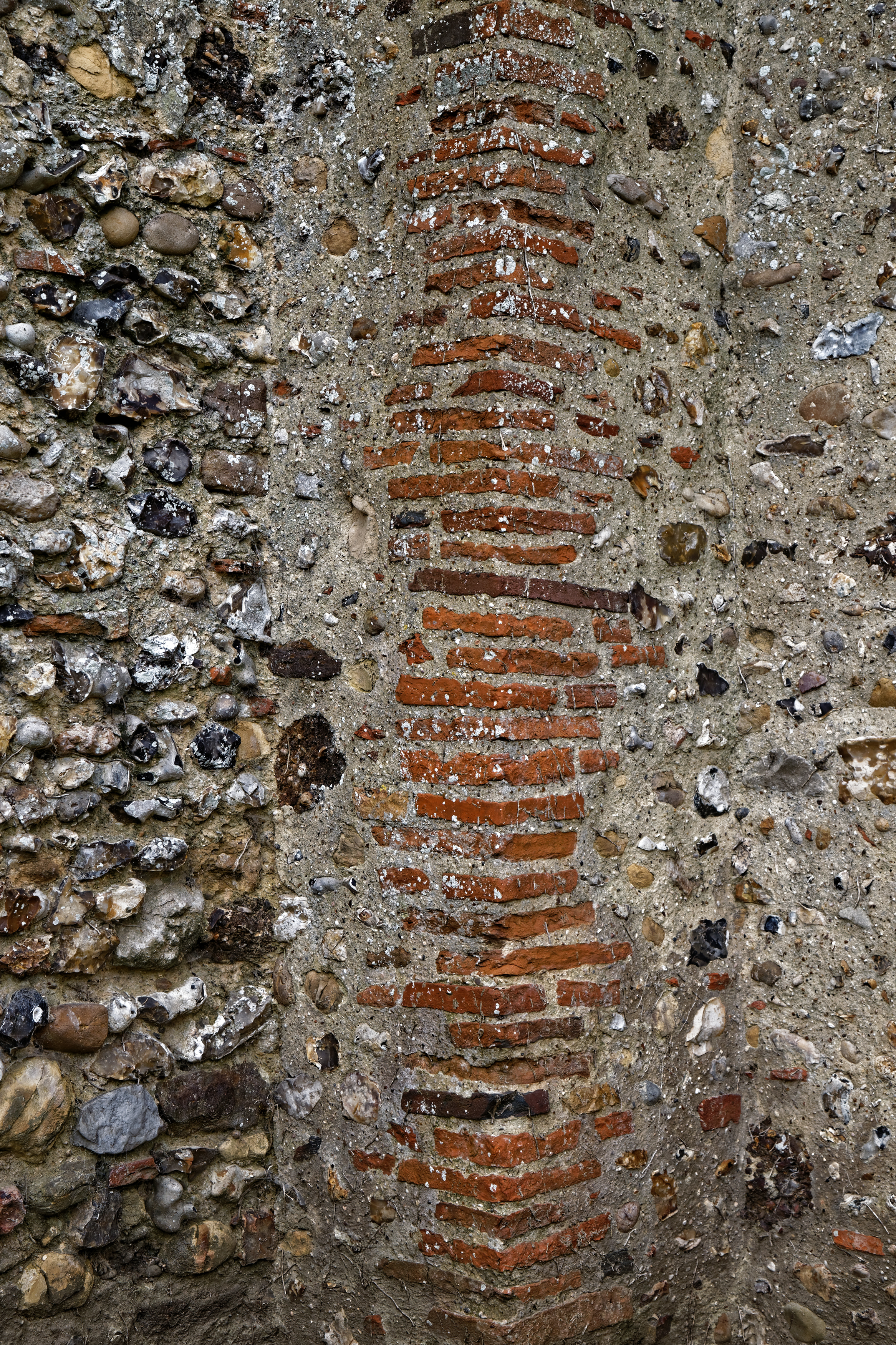 Roman brick infill in the tower north face corner of the Grade I listed 11th- to 15th-century Parish Church of St Andrew's, in Boreham village, Essex, England.Camera: Canon EOS 6D with Canon EF 24-105mm F4L IS USM lens.Software: RAW file lens-corrected, optimized and converted with DxO OpticsPro 11 Elite, and further optimized with Adobe Photoshop CS2.